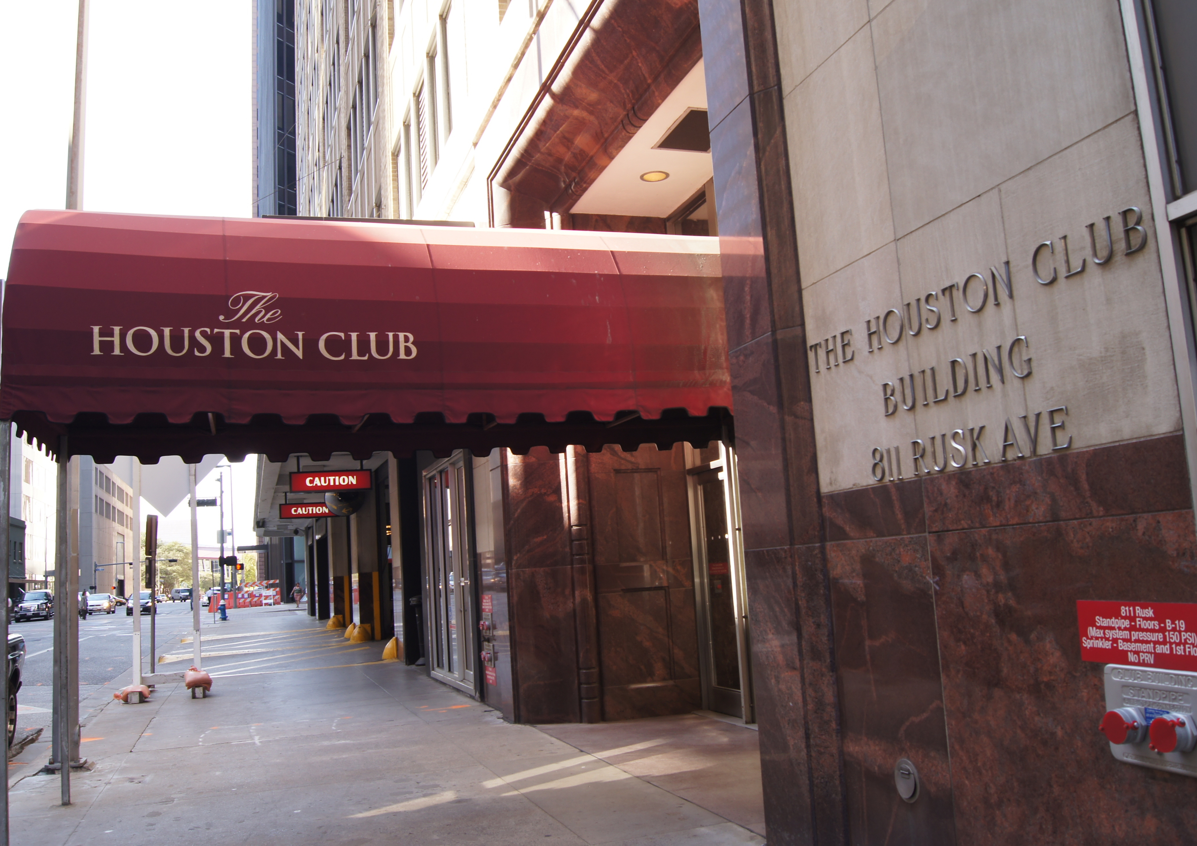 Houston club Entrance in Downtown Houston